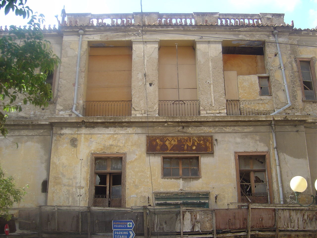 Prokesch-Osten house in Athens, Greece, built in 1836-1837